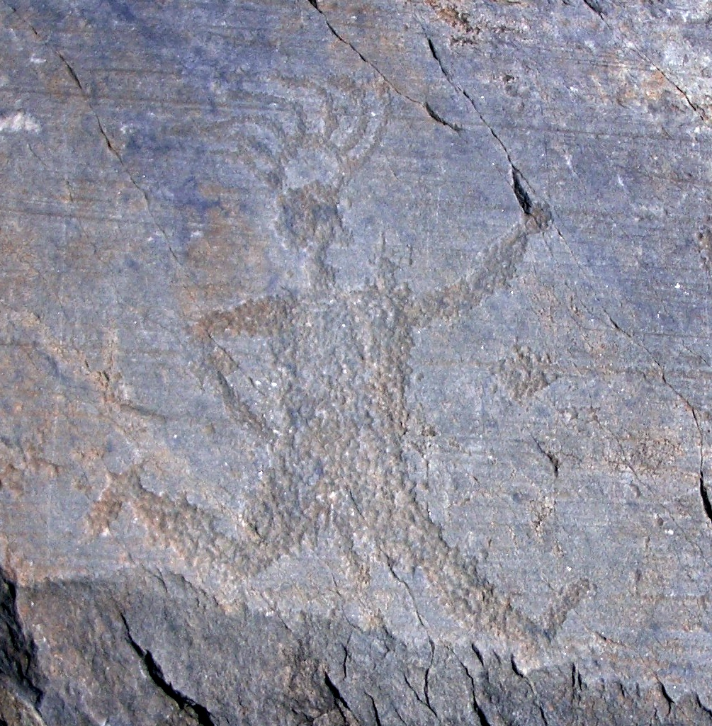 Camunnni rock engraving in Valcamonica. Location: Capo di Ponte (Italy). Picture taken by user:Laurom, september 2006